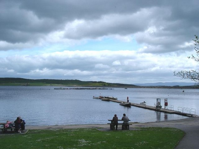 Llyn Brenig. The Brenig reservoir to the south of Denbigh. Owned by Welsh water the reservoir is a popular place for ramblers, fishermen and cyclists.